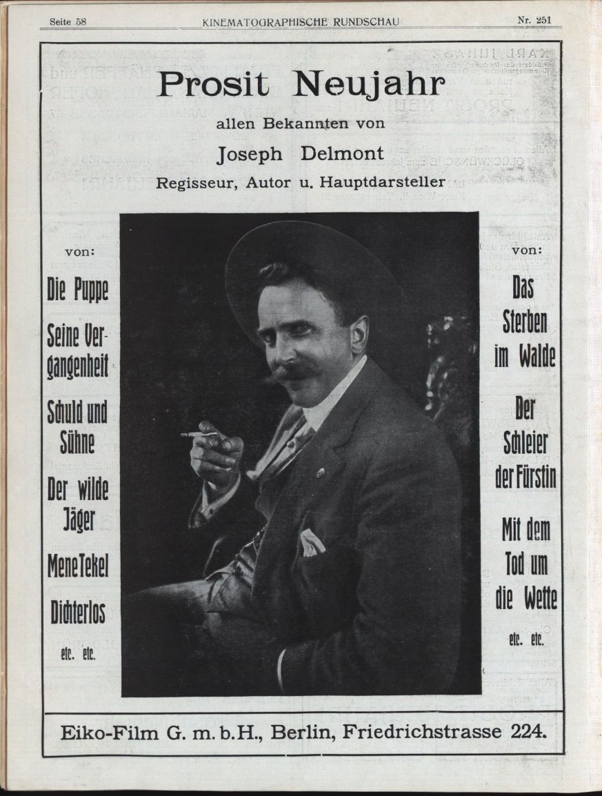 Joseph Delmont - 1913 New Year Wishing